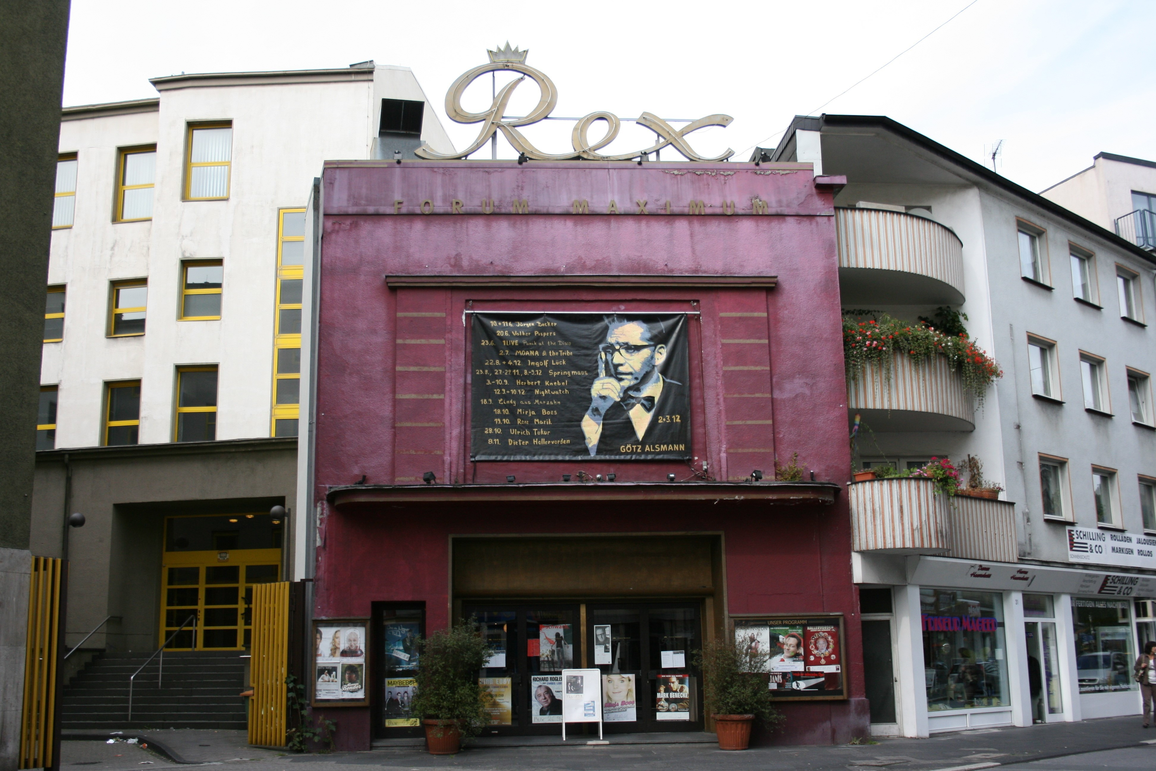 Rex-Theater in Wuppertal-Elberfeld, Kipdorf